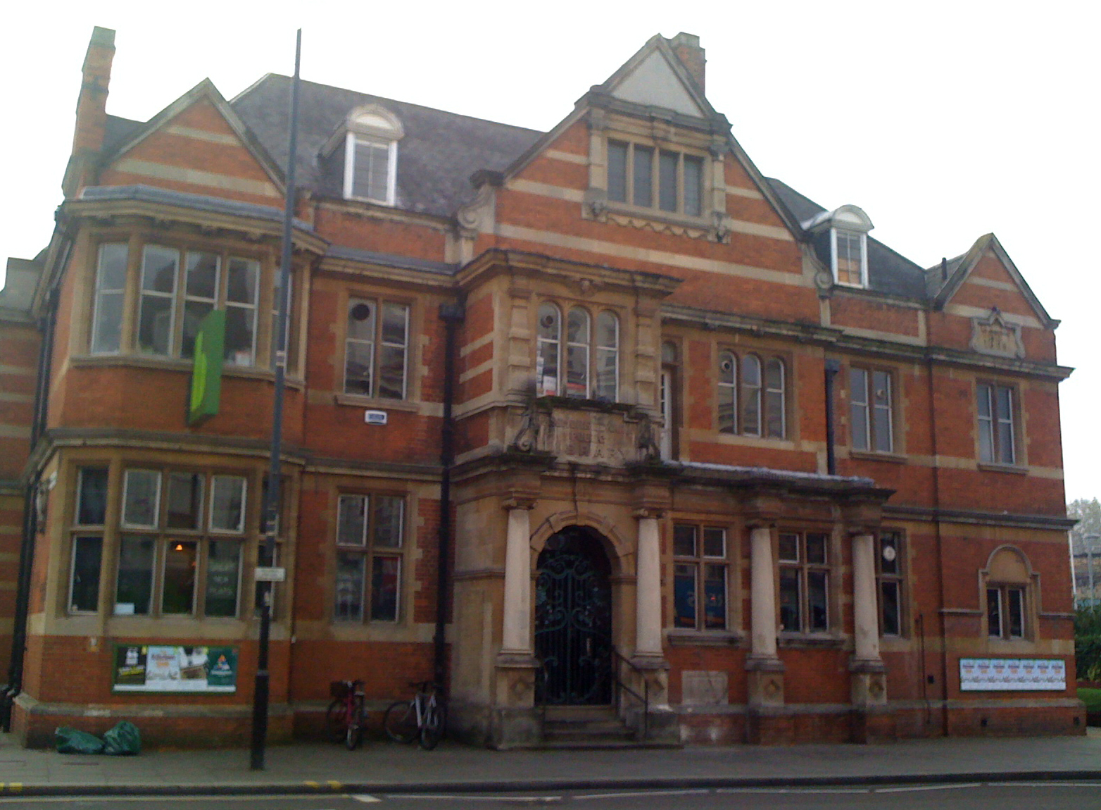 The Passmore Edwards Library Shepherds Bush, now the home of the Bush Theatre.